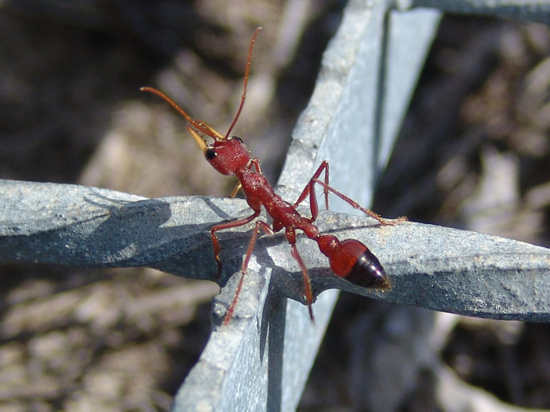 Cropped and resized image from a Sony DSC-F828 of a Red Bull Ant taken in the Royal National Park, on the 16th of April, en:2005.